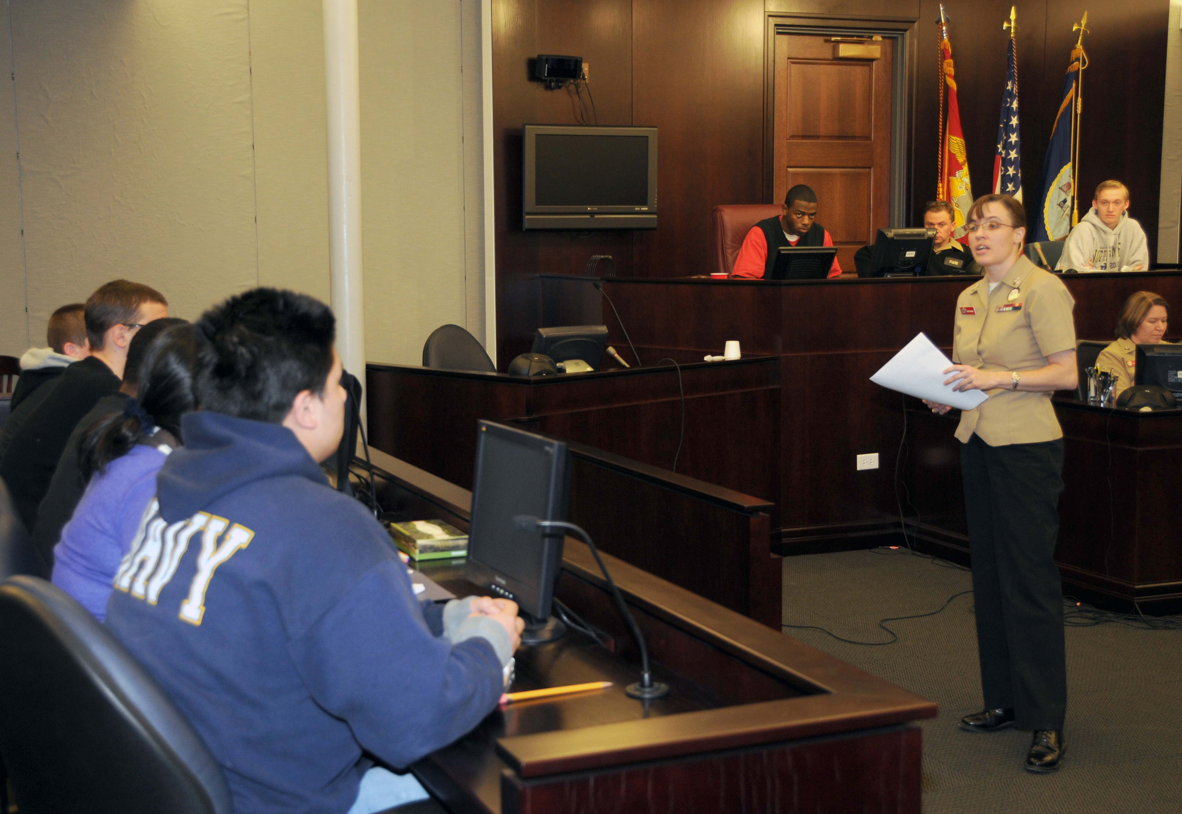 GREAT LAKES, Ill. (Dec. 23, 2008) Legalman 1st Class Christie Richardson, a trial services legalman assigned to Region Legal Service Office Midwest makes an opening statement for the prosecution to a jury during a mock trial. Richardson was part of a legal team demonstrating the legal system for 22 Navy Junior Reserve Officers Training Corps (NJROTC) cadets from Chicago-area high schools. (U.S. Navy photo by Scott A. Thornbloom/Released)